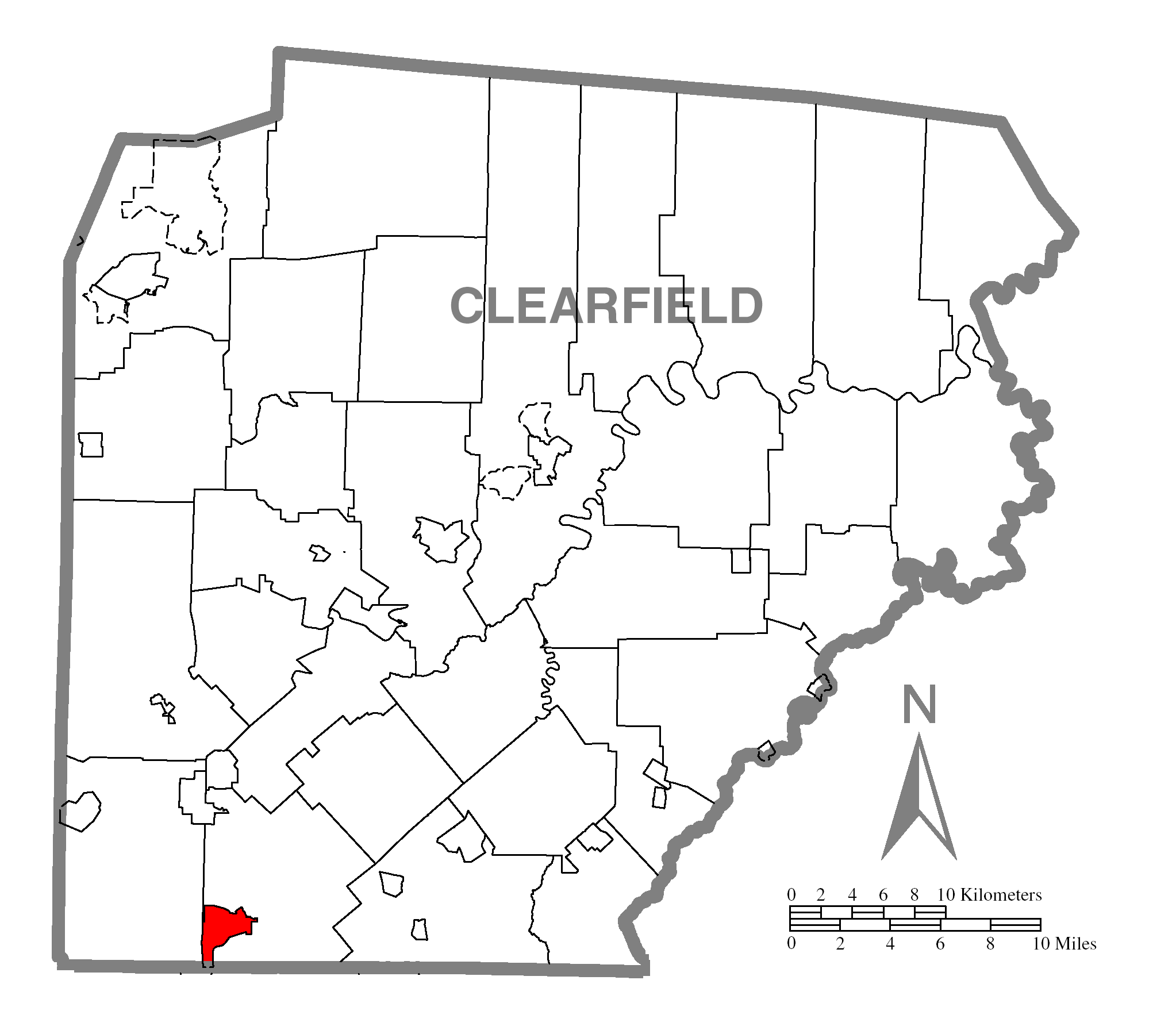 A map of Clearfield County showing Westover, Pennsylvania (alternate) highlighted on the map.